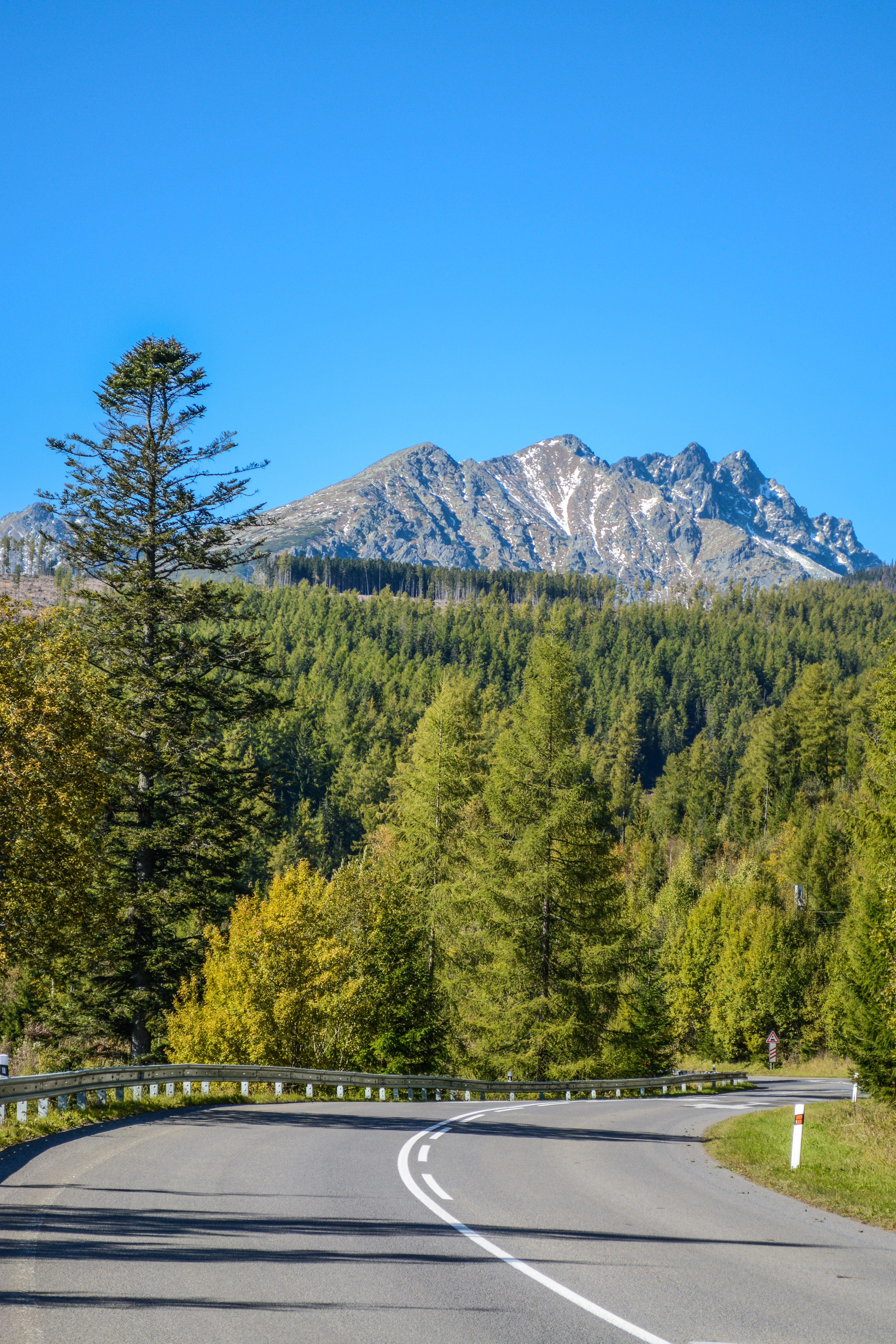 Road Cesta Slobody near Vyšné Hágy municipality, with Hrebeň bášt in background